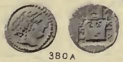 Greek coins and their parent cities (1902) Author: Ward, John, 1832-1912; Hill, George Francis, Sir, 1867-1948 Subject: Coins, Greek; Numismatics, Greek; Greece -- Description, geography; Italy -- Description and travel; Turkey -- Description and travel Publisher: London : Murray Possible copyright status: NOT_IN_COPYRIGHT Language: English Call number: AKB-0671 Digitizing sponsor: MSN Book contributor: Robarts - University of Toronto Collection: toronto Scanfactors: 7